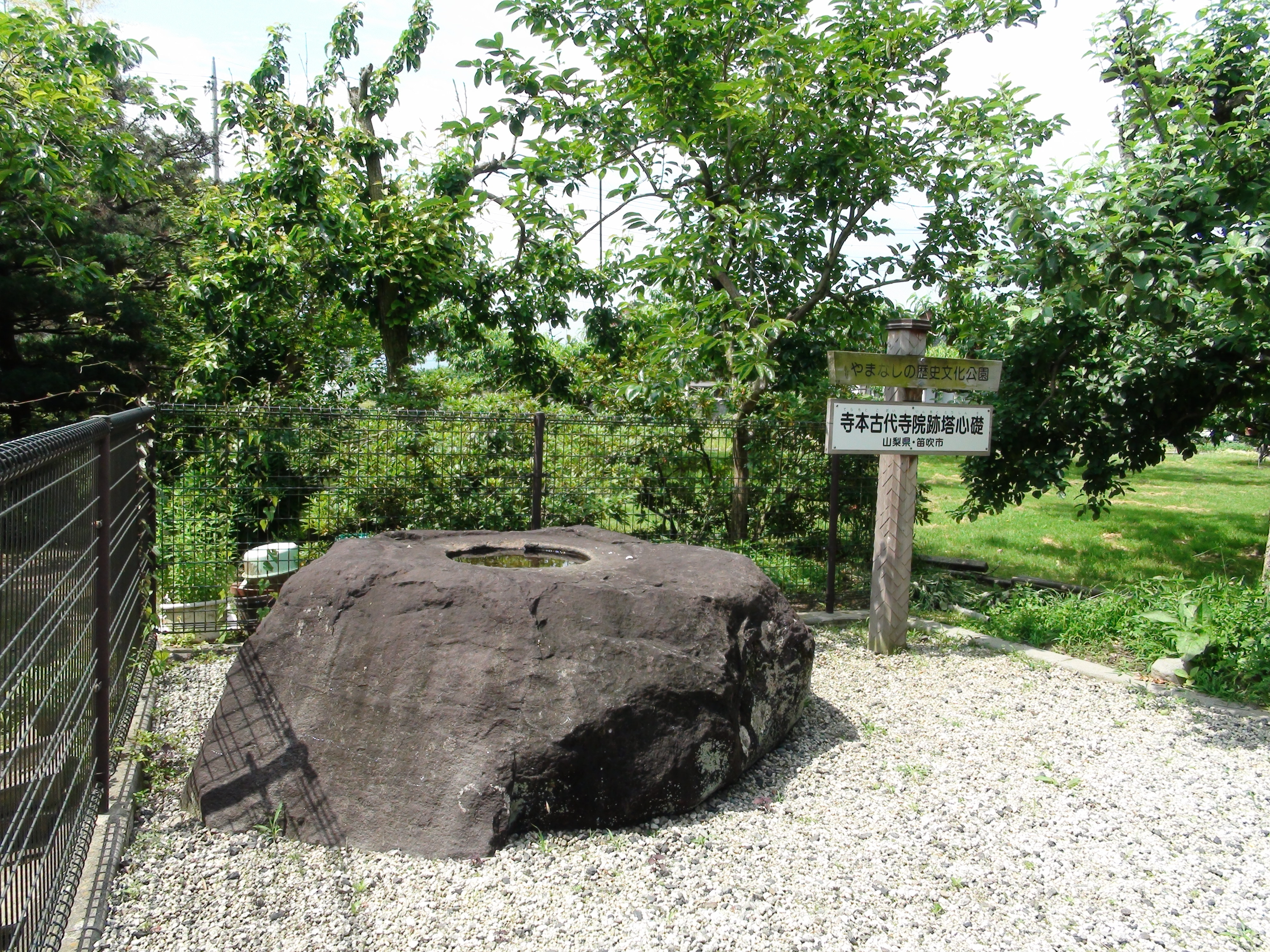 Ruins of a temple of Teramoto in Fuefuki CityYamanashi Pref